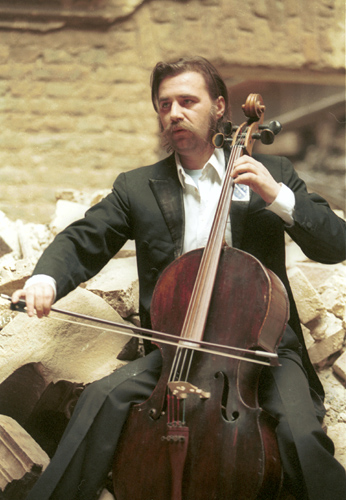 Vedran Smailovic playing in the destroyed building of the National Library in Sarajevo, 1992. Photo by Mikhail Evstafiev